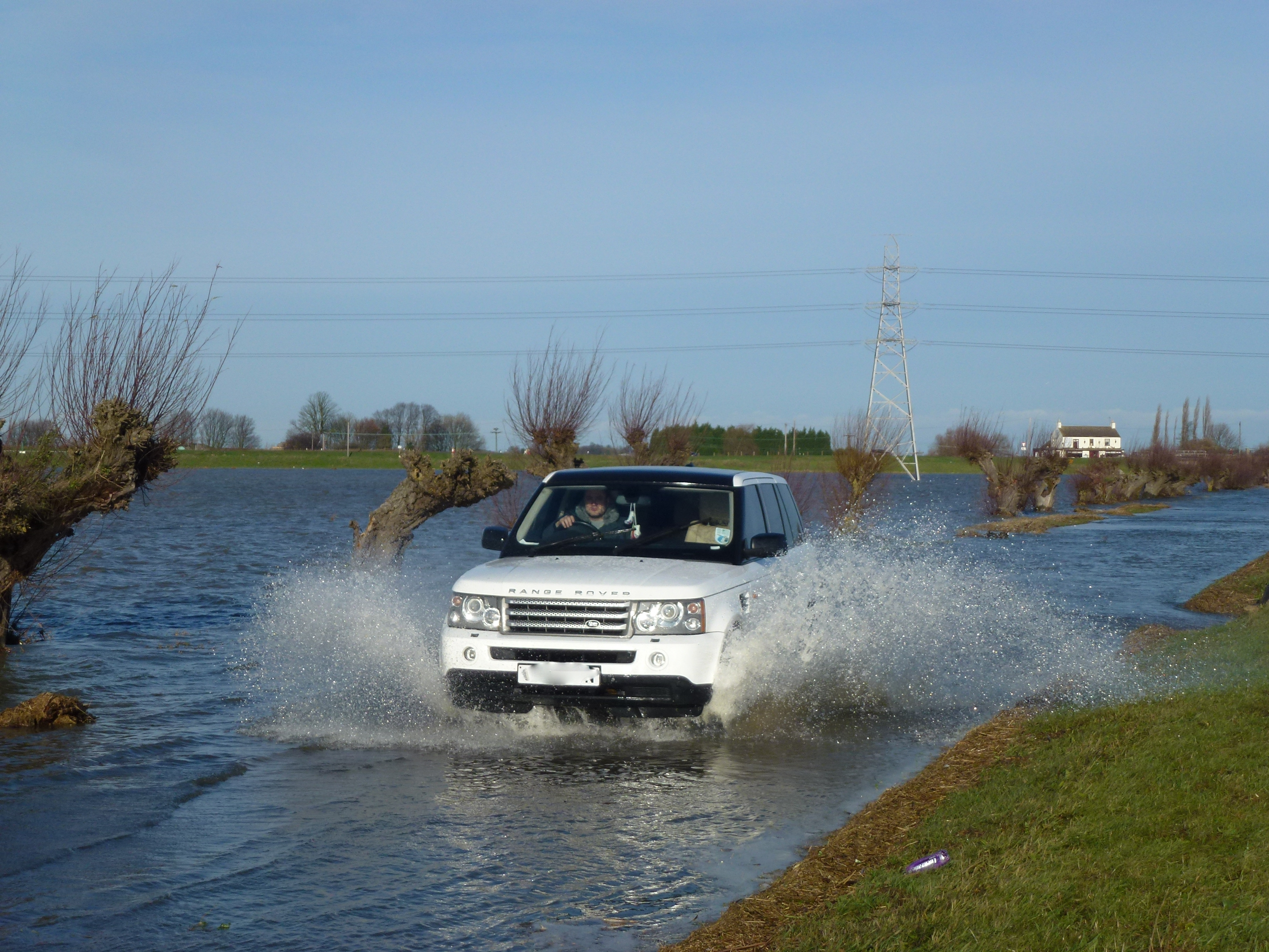 Making a splash on Whittlesey Wash - The Nene Washes